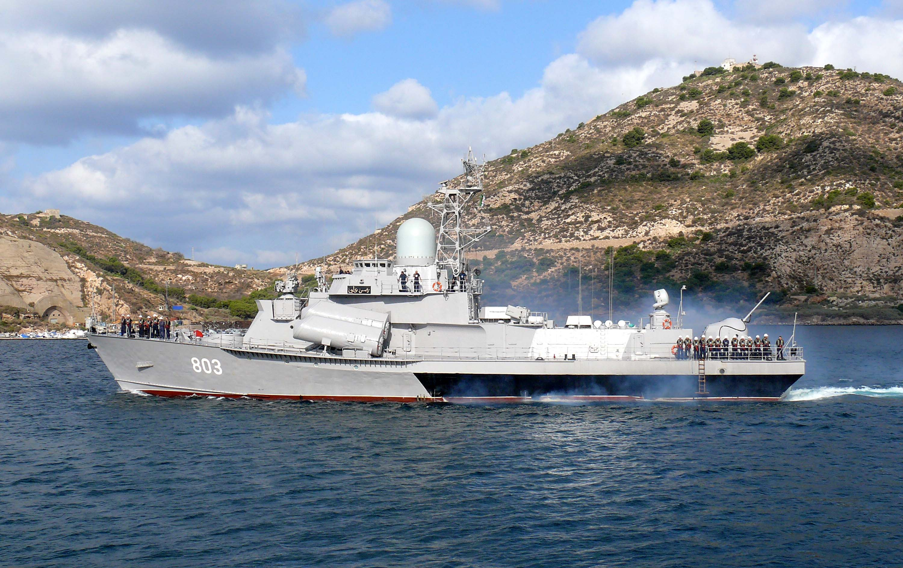 Algerian project 1234E (NANUCHKA II class) missile corvette Rais Ali, former the sovet MRK-22, in Cartagena